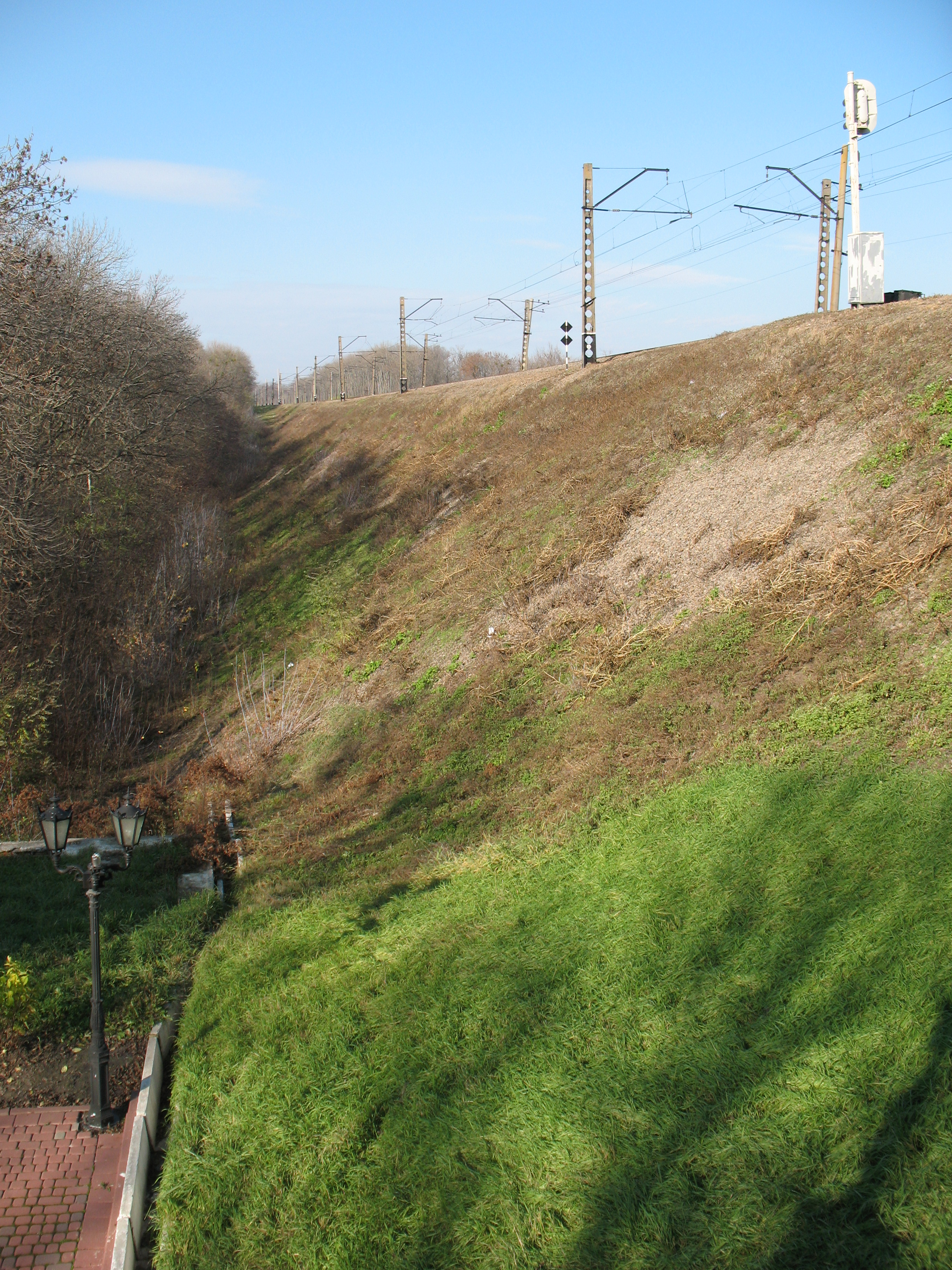 Borki.